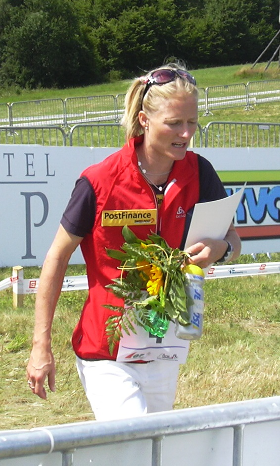 World Orienteering Championships 2008 in Olomouc, Czech Republic. On photo Vroni König-Salmi.